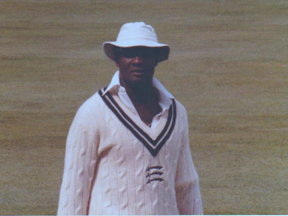 Wayne Daniel at Lord's Cricket Ground in 1983, playing for Middlesex